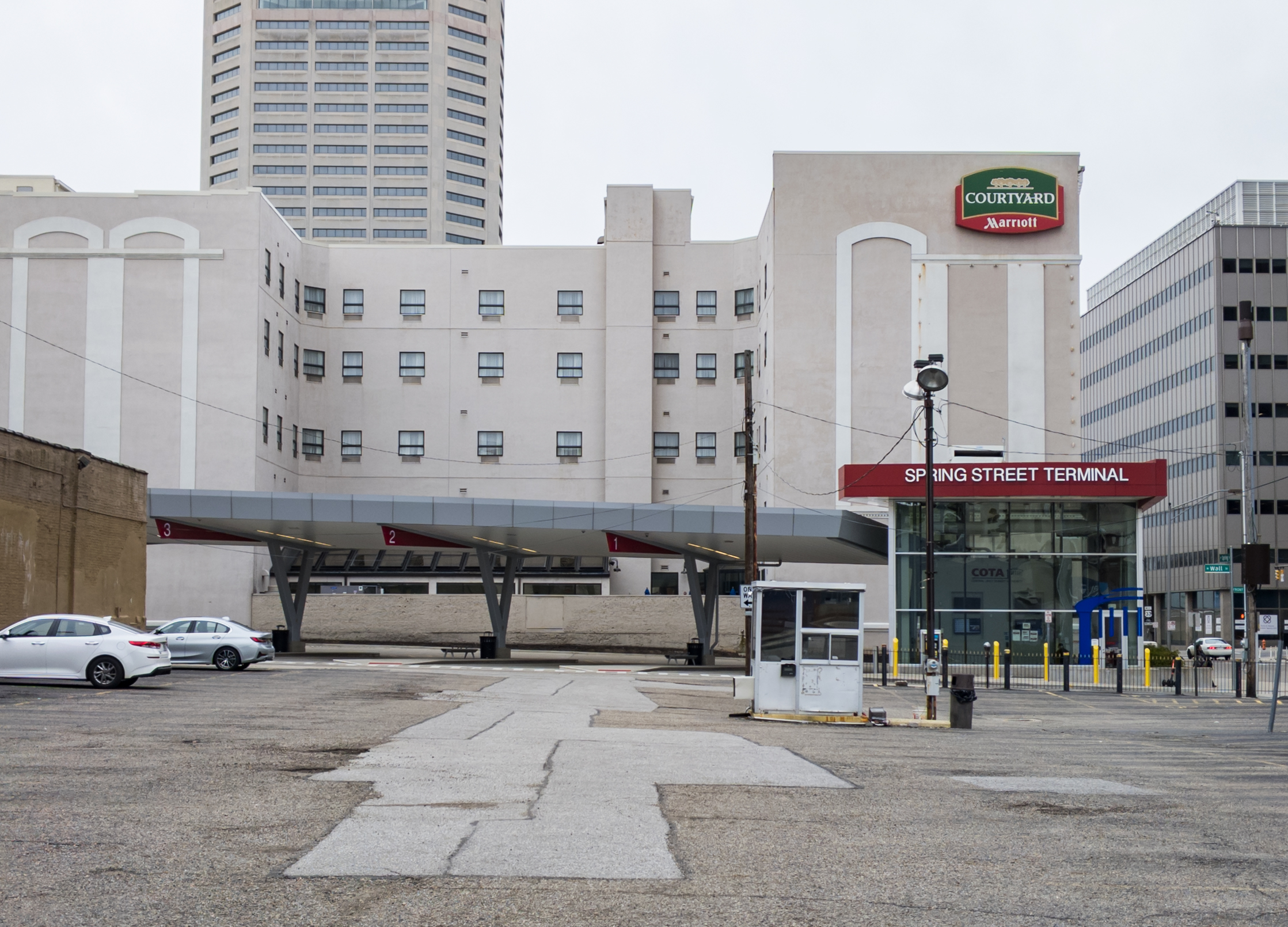 COTA Spring Street Terminal, taken in downtown Columbus, Ohio.